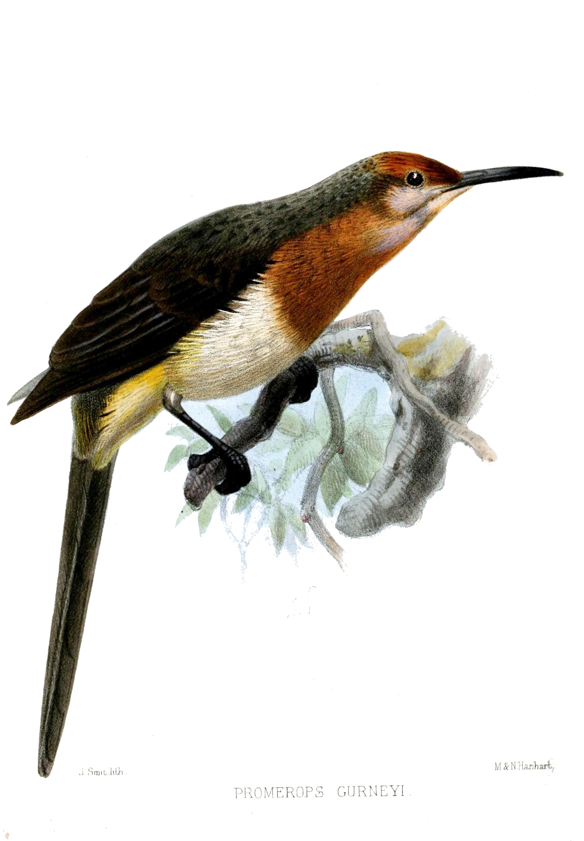 Promerops gurneyi